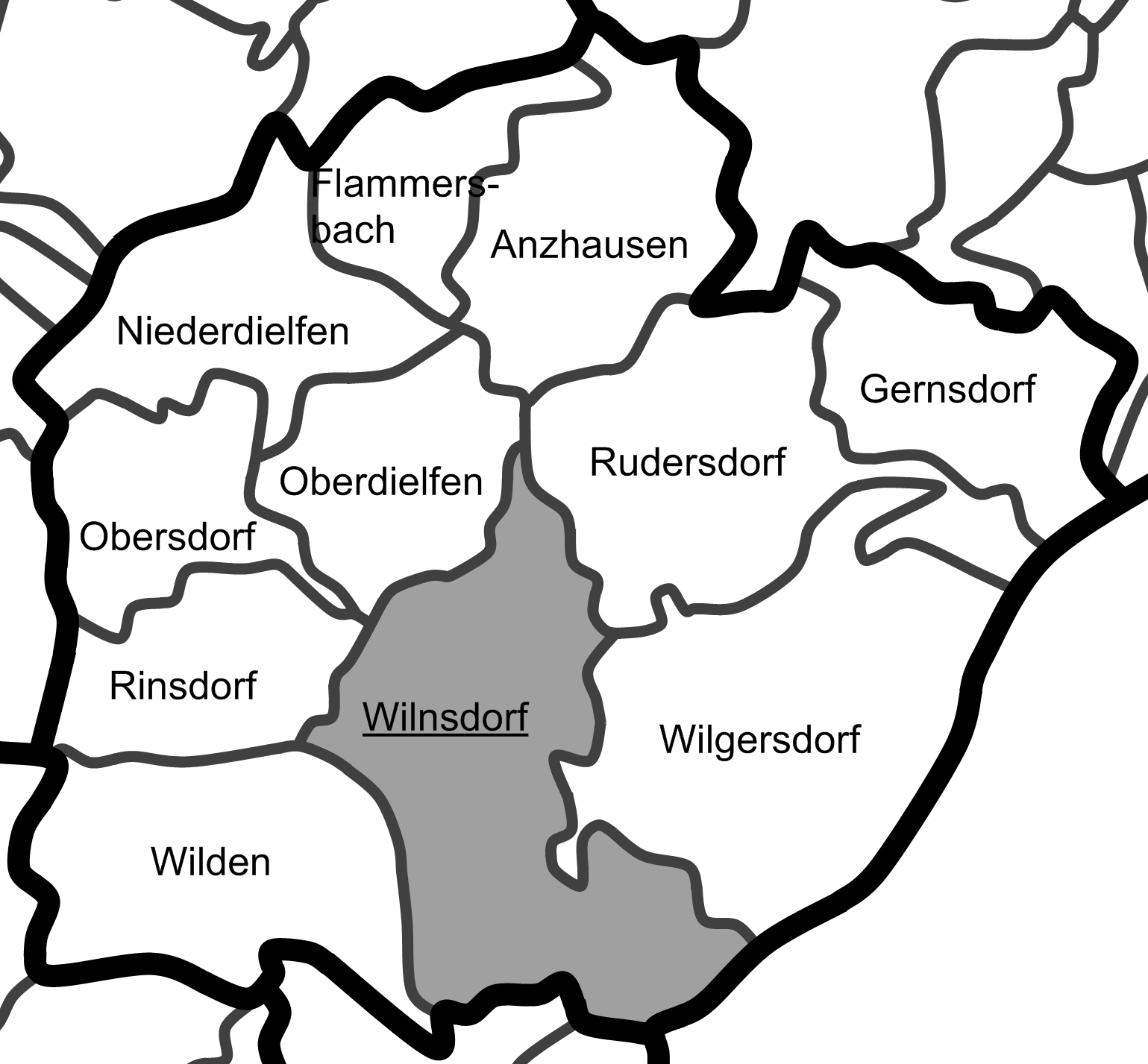 Location of Wilnsdorf within the community Wilnsdorf.